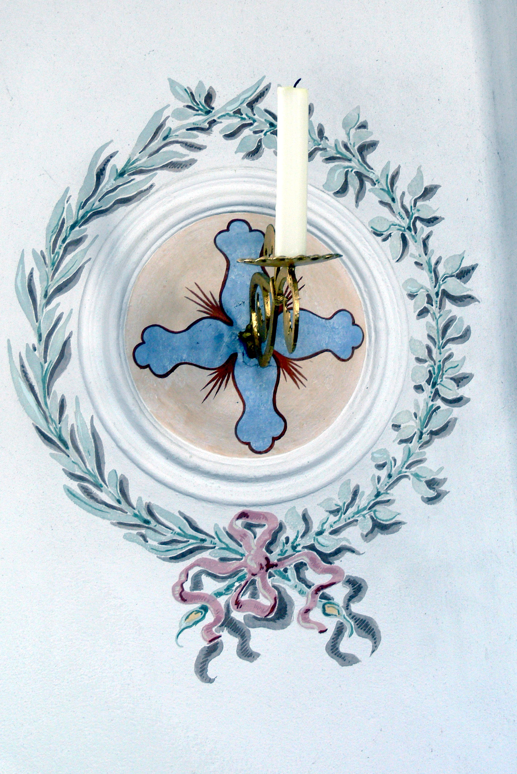 Ellmau ( Tyrol ). Saint Anne cemetery chapel: Consecration cross with candle.